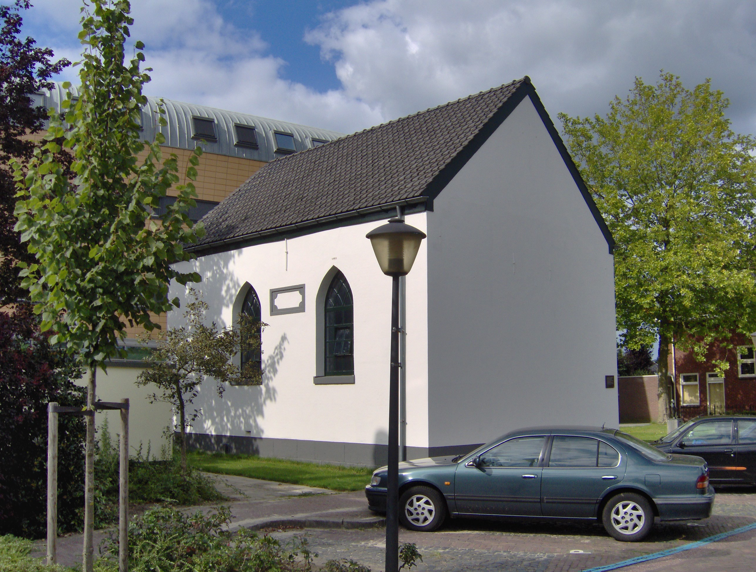 The synagogue of Haaksbergen, Overijssel, The Netherlands